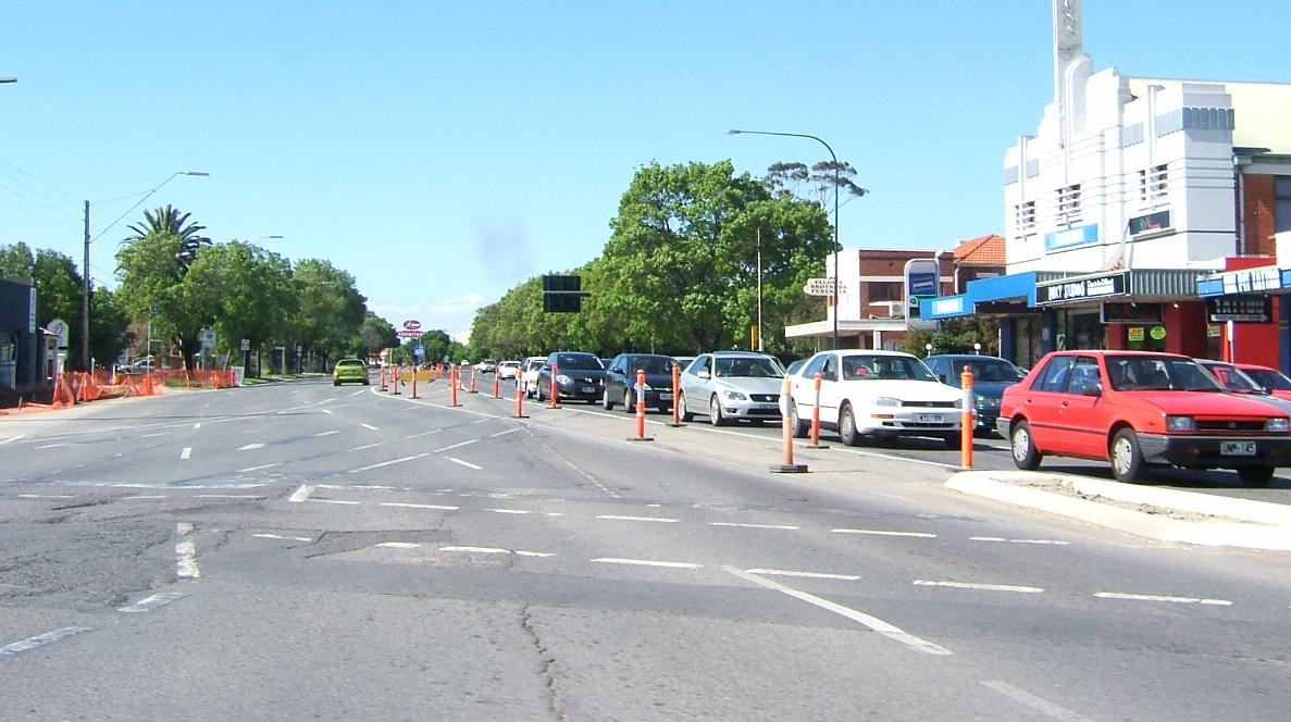 Landscape at Anzac Highway at Ashford, South Australia (left) and Everard Park (right) looking northeast towards the city during the construction of the Gallipoli Underpass (Cnr. South Road and Anzac Highway).